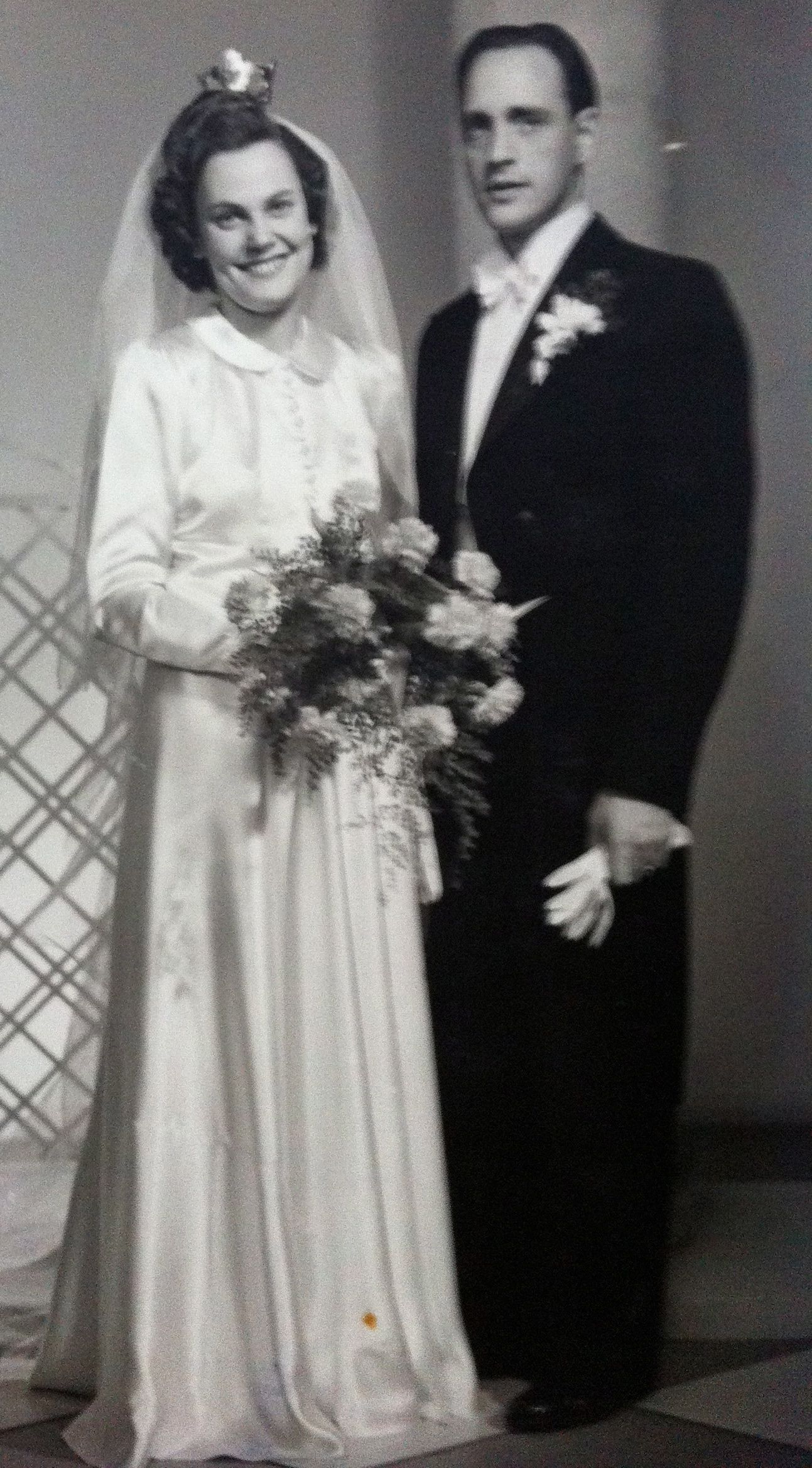 Erik Sjödin